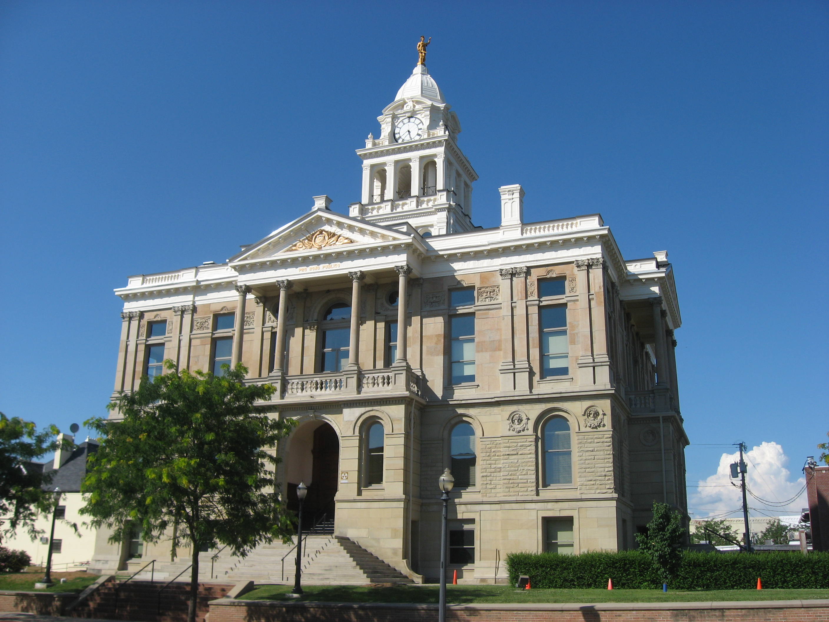 Western side of the Fayette County Courthouse, located at the intersection of Court (U.S. Routes 22/62 and State Route 41) and Main Streets in downtown Washington Court House, Ohio, United States. Built in 1882, it is listed on the National Register of Historic Places.